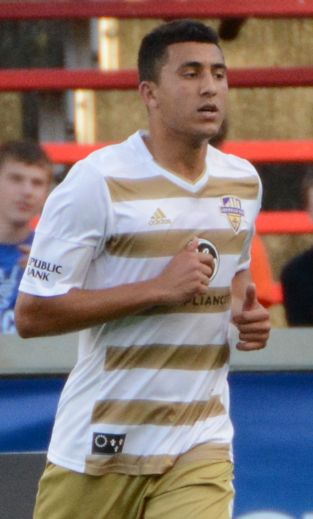 Ilija Ilic, Andrew Wiedeman, Tarek Morad, Austin Berry, Greg Ranjitsingh, Paco Craig, Guy Abend Taken at a Lamar Hunt U.S. Open Cup match between FC Cincinnati and Louisville City FC at Nippert Stadium in Cincinnati, Ohio on May 31, 2017.